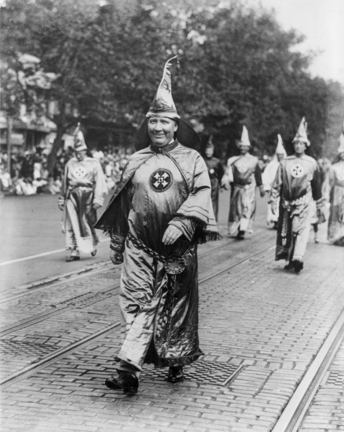 Dr. H.W. Evans, Imperial Wizard of the Ku Klux Klan, leading his Knights of the Klan in the parade held in Washington, D.C. * Date: September 13, 1926 * Licensing: No known restrictions on publication.